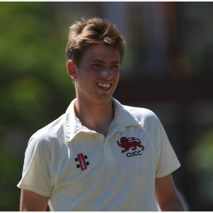 Varsity Cricket Match July 2014